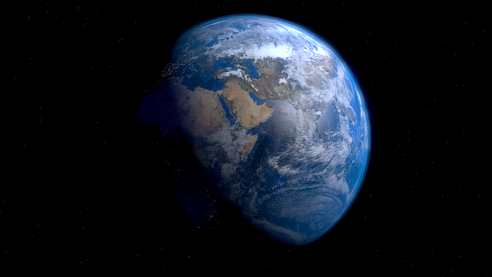 with the help of textures released by NASA, and a tutorial on using Blender, I rendered this Earth a while ago